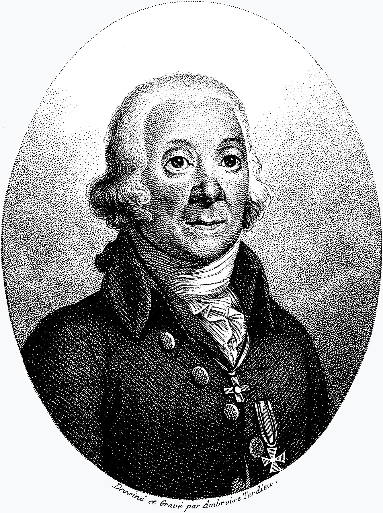 Peter Simon Pallas. Stipple engraving by A. Tardieu after himself. Iconographic Collections Keywords: portrait prints; Ambroise Tardieu; stipple prints; Peter Simon Pallas